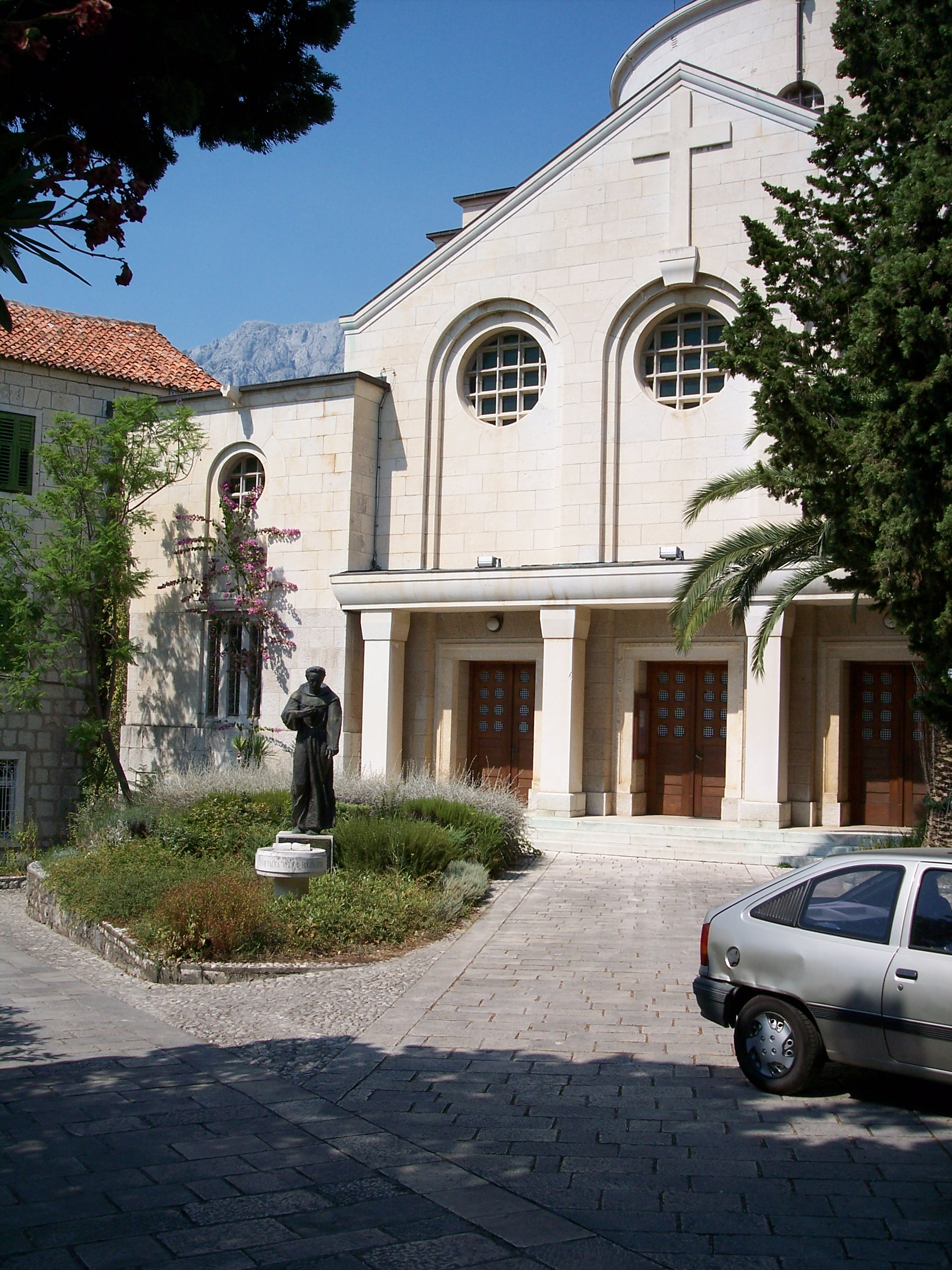 Makarska]